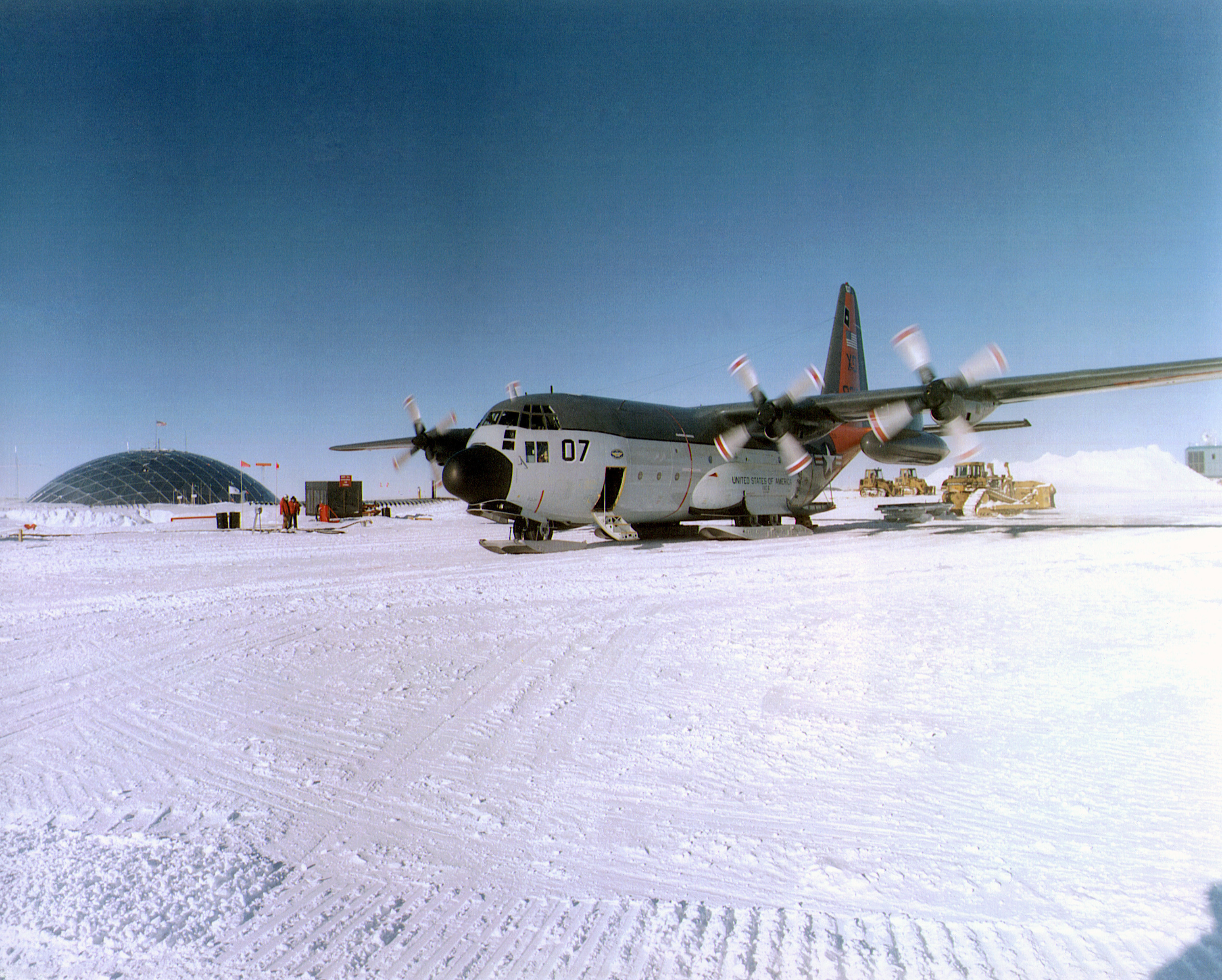 Three-quarter portside view of an LC-130F ski-equipped Hercules, Navy's Antarctic Development Squadron 6 (VXE-6) "Ice Pirates," NAS Point Mugu, California, taxiing at the Admundsen-Scott South Pole Station, Antarctica.